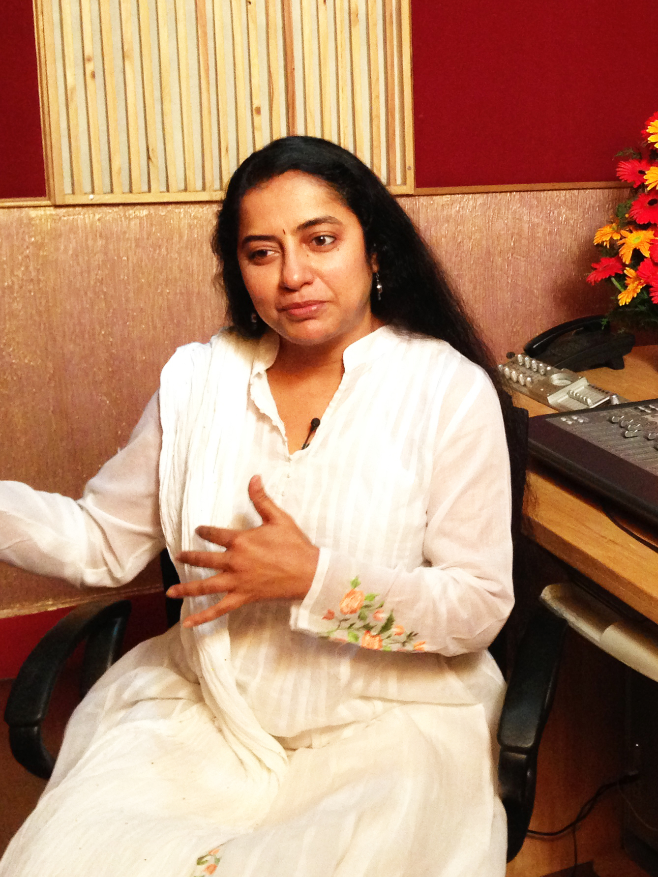 Actress Suhasini Maniratnam gives a behind-the-scenes interview for the Kannada language version of the TeachAIDS animation at Seven Crest Recording Studio in Chennai, Tamil Nadu. Photo credit: TeachAIDS